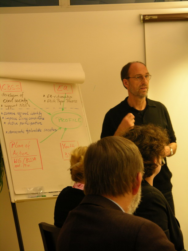 Baltic Sea Group Yputh Policy